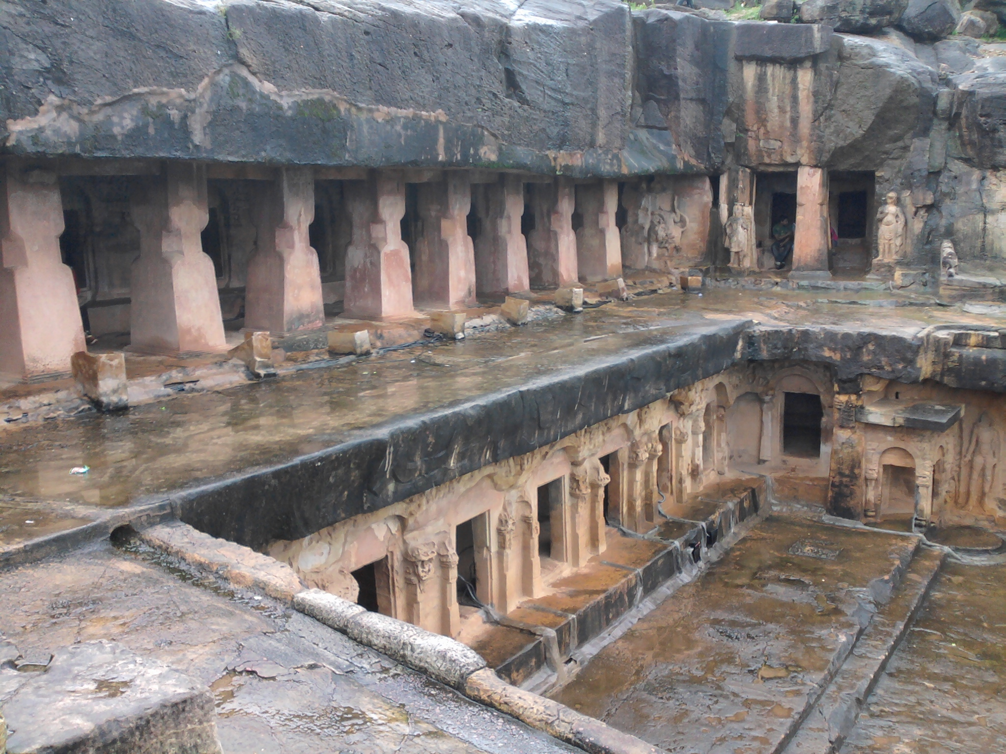 All ancient caves, structures and other monuments or remains situated on the Udaygiri and the Khandagiri hills except the temple of Parasnath on the top of the Khandagiri hill and also the temple in front of the Barabhuji and the Trisula Caves